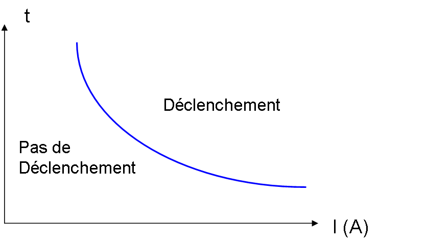 Protection maximum de courant temps inversé